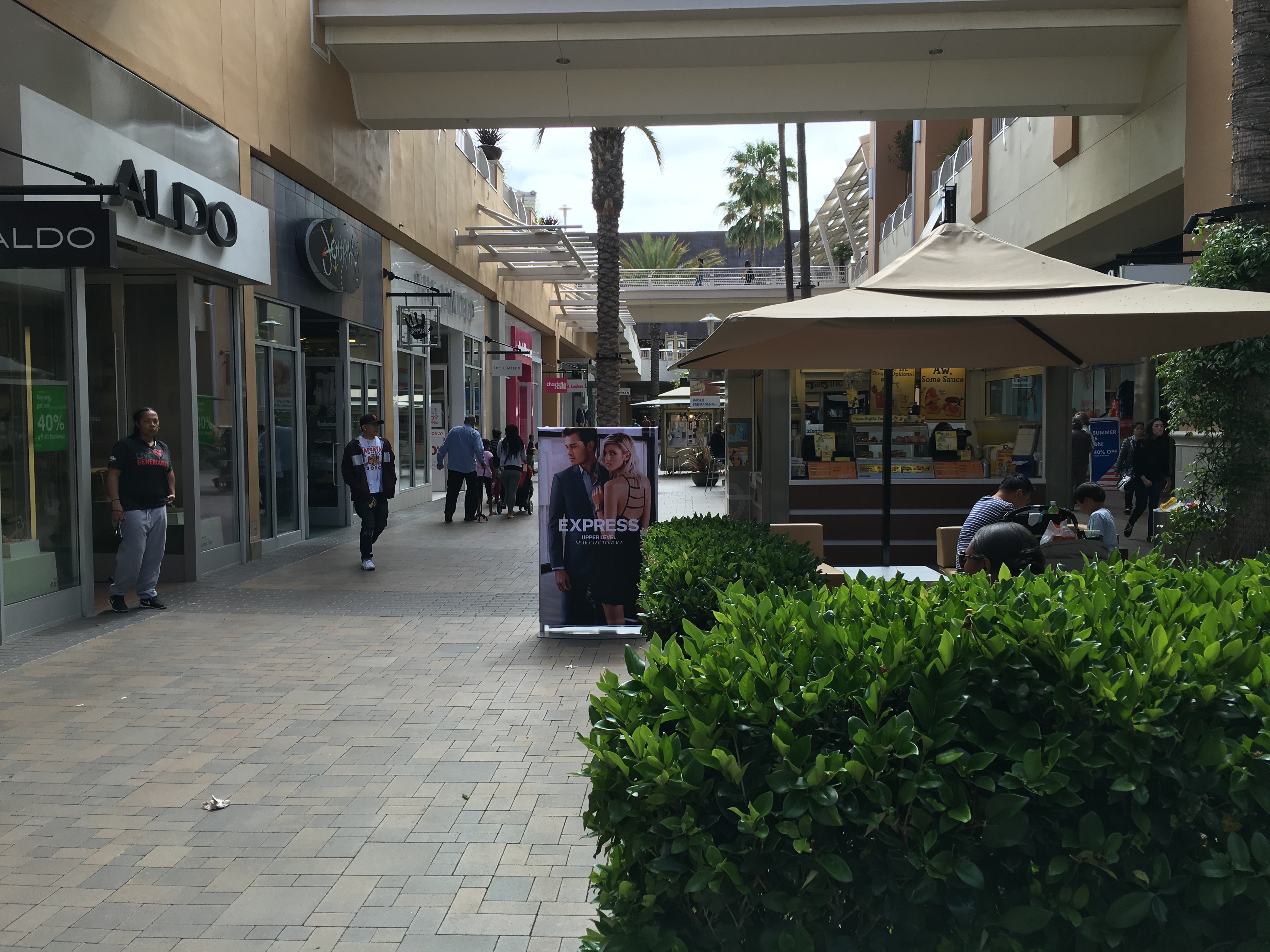 Fashion Valley Mall